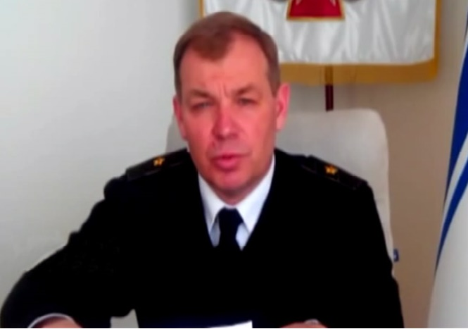 Serhiy Hayduk, Ukrainian admiral, commander of the Ukrainian Navy